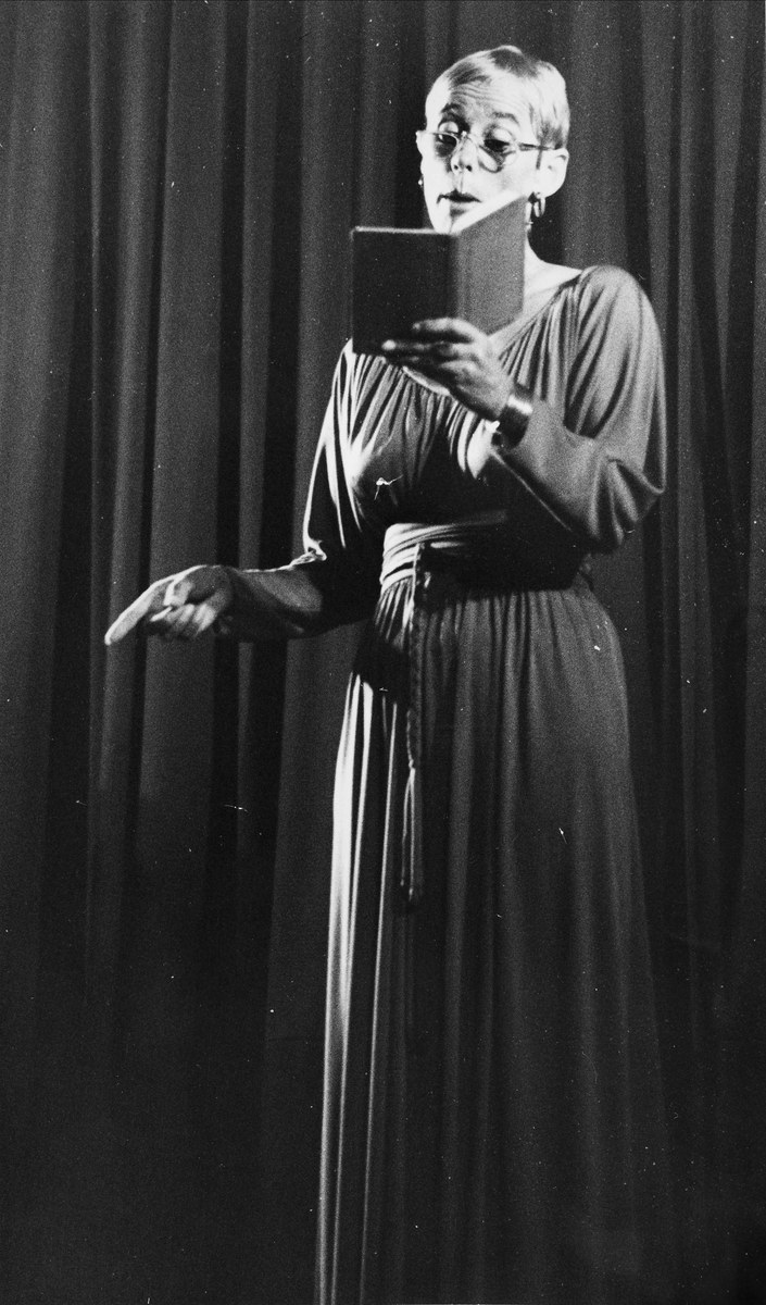 Henny Moan (b. 1936) is a Norwegian actress. She has had a long career in theatre, but is best known for her roles in certain classics of Norwegian cinema, such as the Oscar-nominated Ni liv (1957) and De dødes tjern (1958).